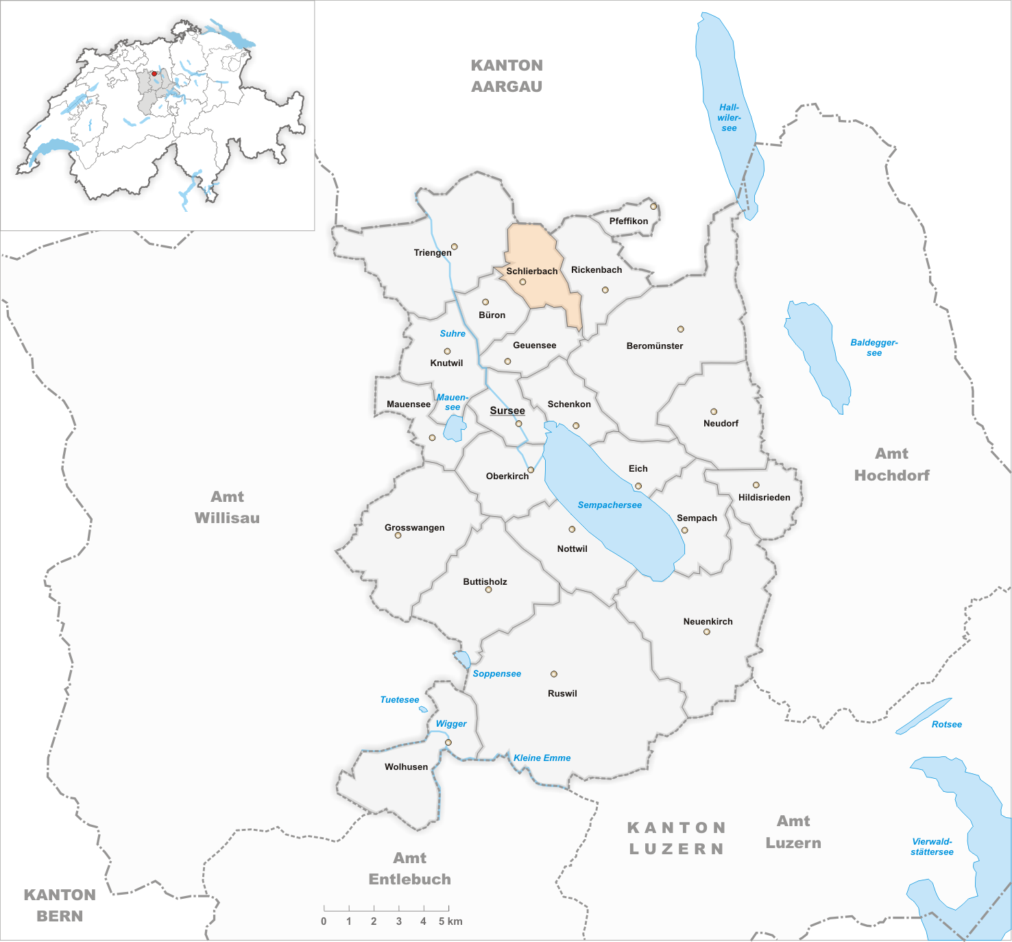 Municipality Schlierbach